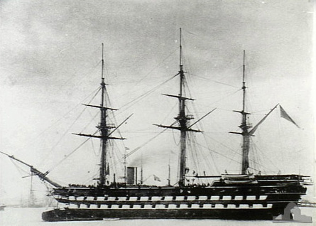 Williamstown, Victoria. Between 1870 and 1879. Port broadside view of the wooden steam battleship HMVS Nelson.